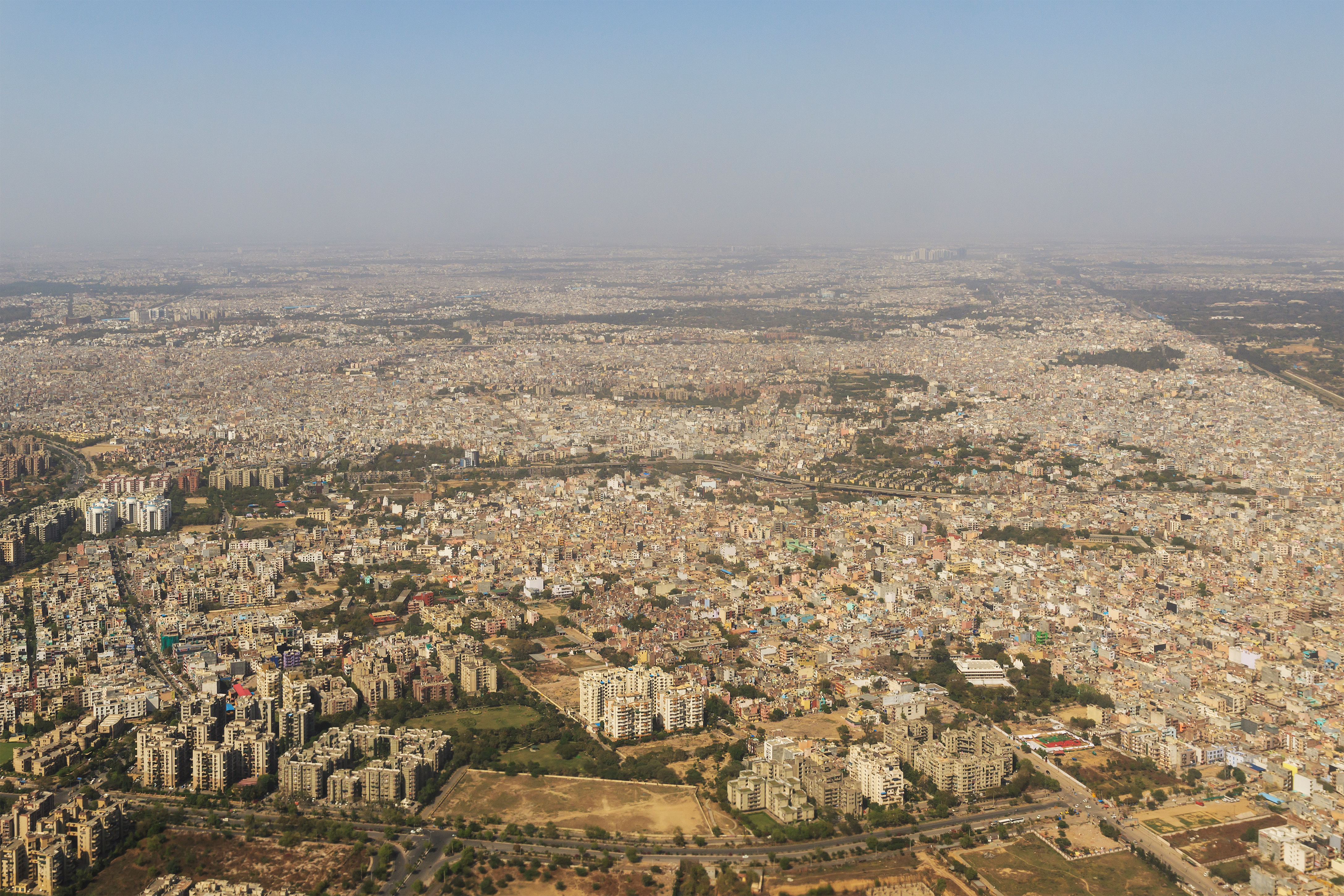 Aerial photograph of Dwarka Sub City / New Delhi, India, taken from airplane